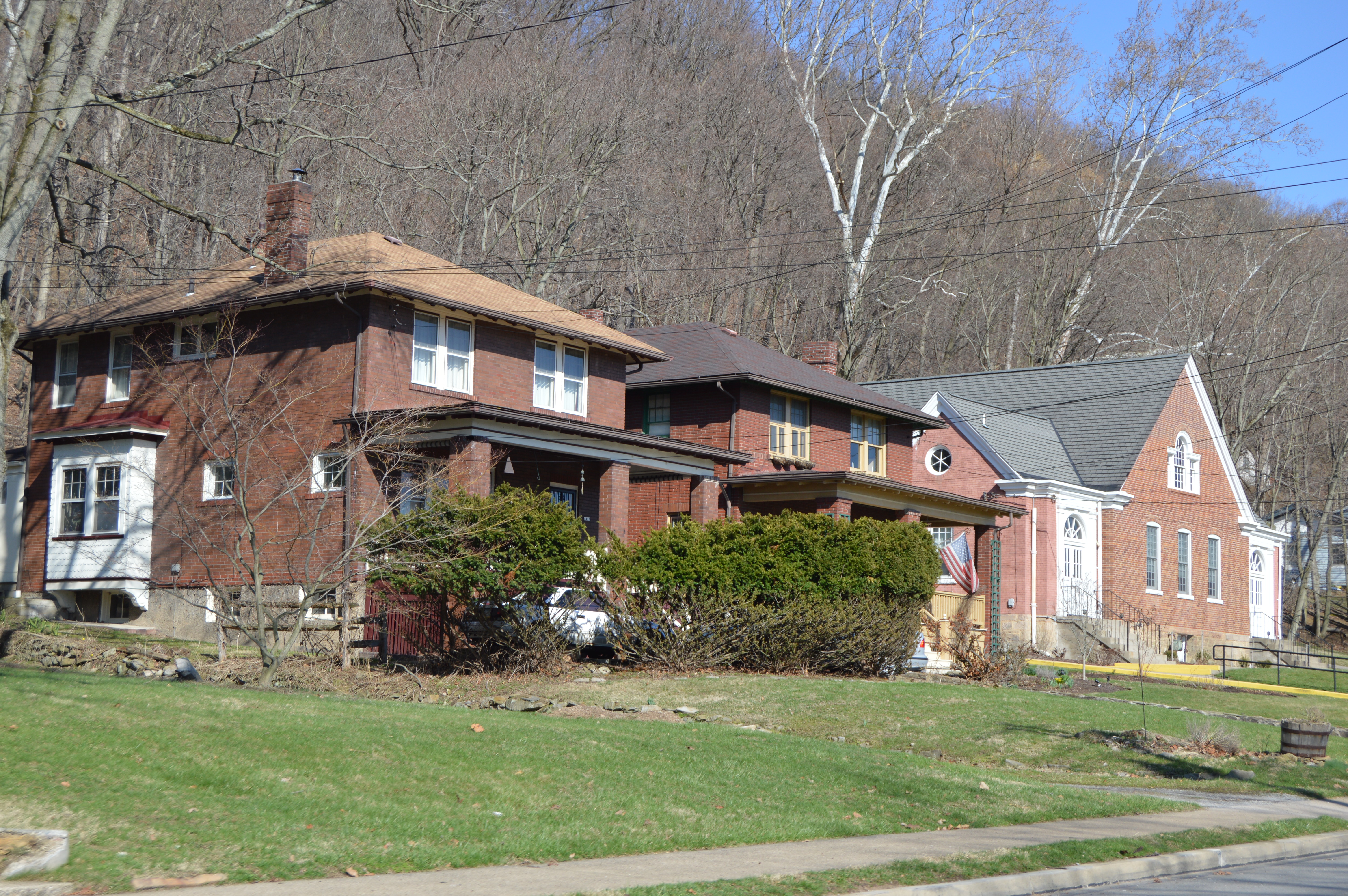 Houses and Grace Orthodox Presbyterian Church on the northern side of the 1400 block of Beaver Street in Glen Osborne, Pennsylvania, United States.